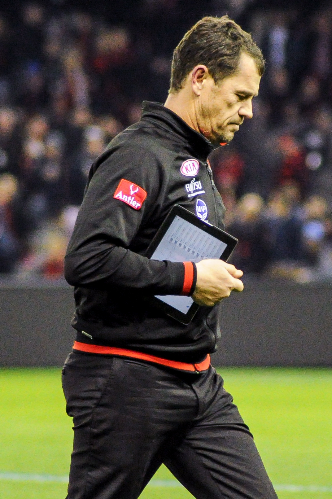 Mark Harvey during the AFL round twelve match between Essendon and Port Adelaide on 10 June 2017 at Etihad Stadium in Melbourne, Victoria.